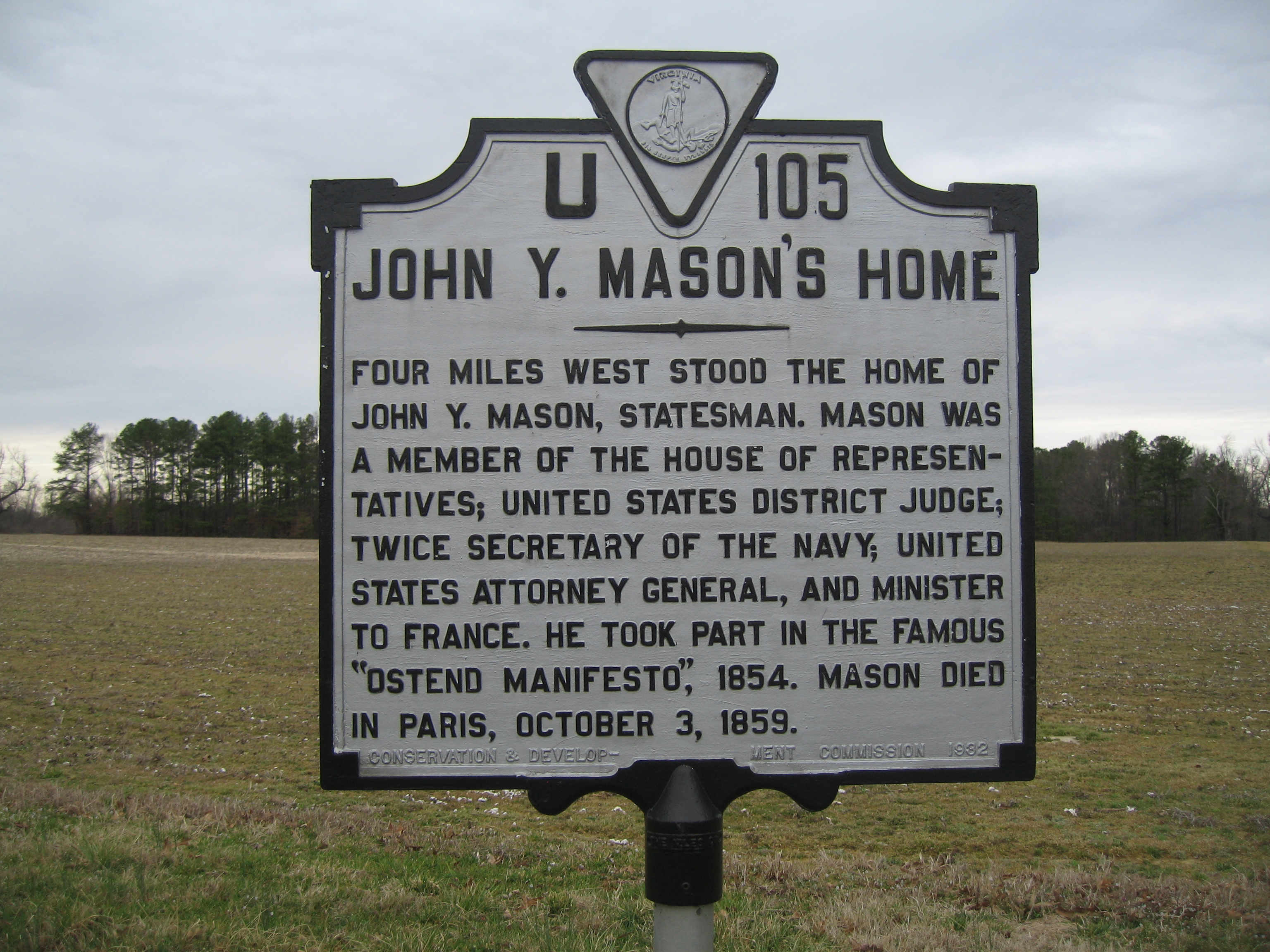 John Y. Mason's Home historical marker on Southampton Parkway (U.S. Route 58) near intersection with Adams Grove Road (Route 615) in Adams Grove, Virginia.